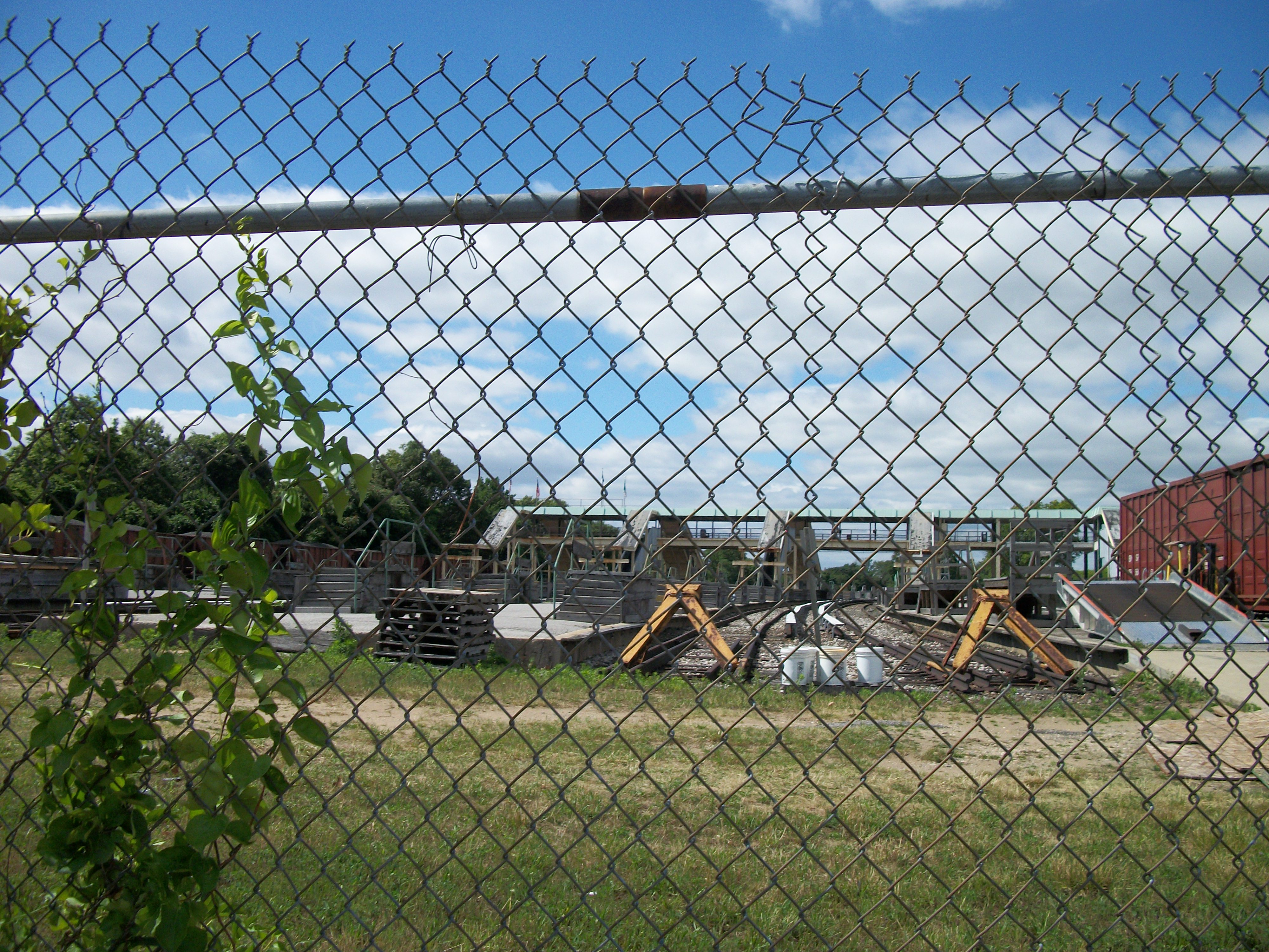 The platforms at Belmont Park (LIRR station), as seen through the chain-linked fence of the interchange at Cross Island Parkway and New York State Route 24 along the Queens-Nassau border. Though the rest of Belmont Park is in Elmont in Nassau County, the station is in the Borough of Queens.